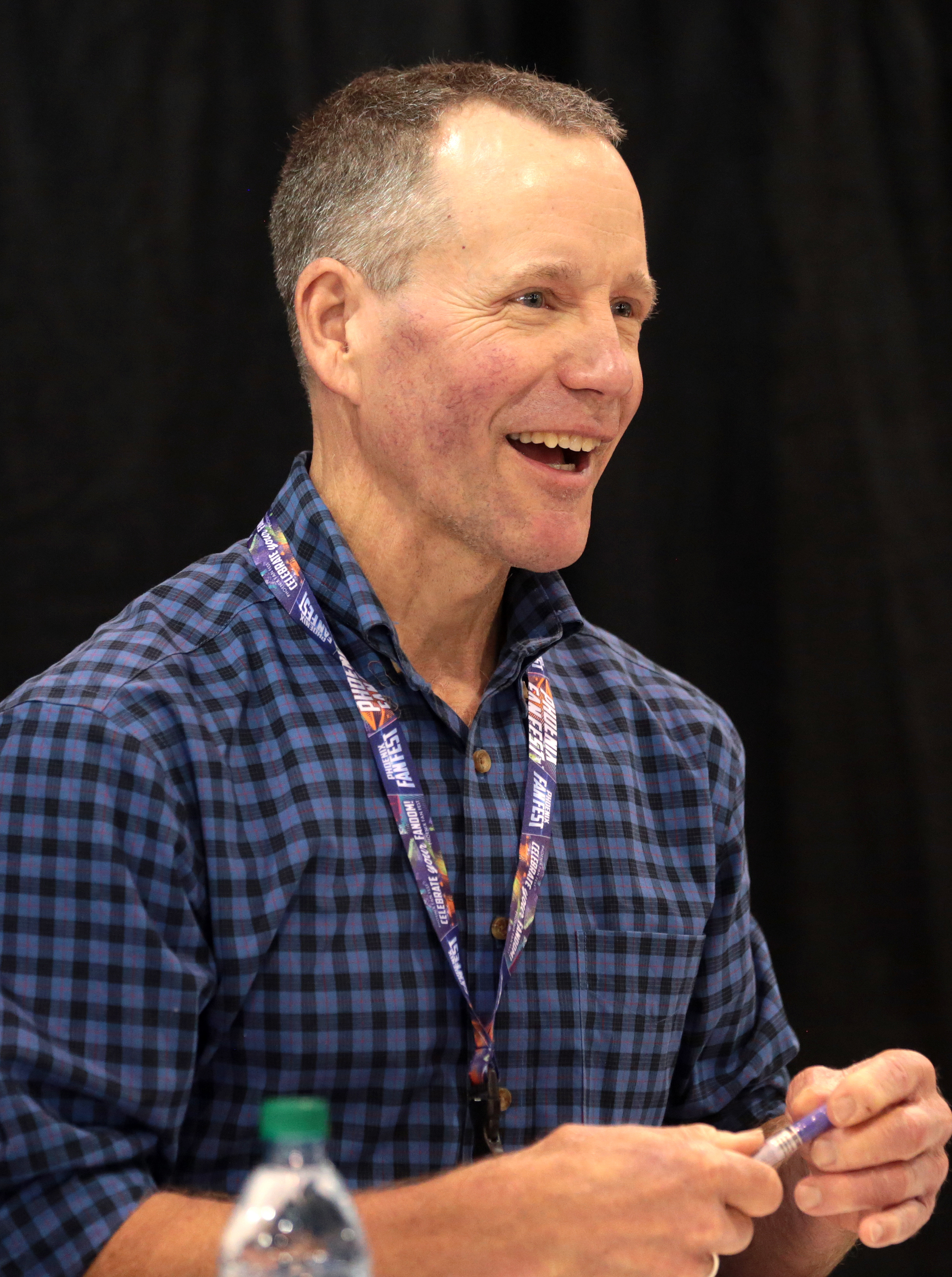 Peter Ostrum speaking at an event in Phoenix, Arizona.